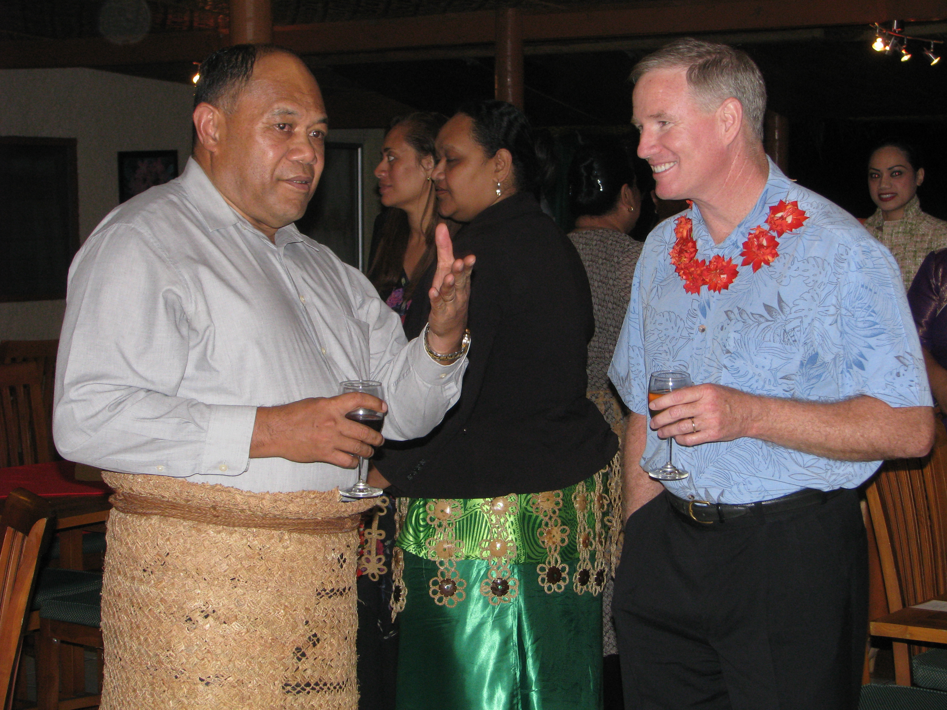 NUKU'ALOFA, Tonga (June 28, 2011) Adm. Patrick Walsh, commander of U.S. Pacific Fleet, speaks with Brig. General Tau'aika 'Uta'atu, commander of the Tonga Defense Services, during a reception hosted by Tonga's Prime Minister, Lord Tu'ivakano. Walsh is part of a U.S. delegation led by Assistant Secretary for East Asian and Pacific Affairs Kurt Campbell, currently visiting nations throughout the South Pacific to engage in discussions to enhance bilateral political, economic and security relations in the region. The delegation also includes Secretary of Defense South/Southeast Asia Principal Director, Marine Corps Brig. Gen. Richard Simcock, and U.S. Agency for International Development (USAID) Assistant Administrator Nisha Biswal, not pictured. [U.S. Navy photo by Lt. Cmdr. Thomas Weiler/ U.S. Government Work License/Public Domain]